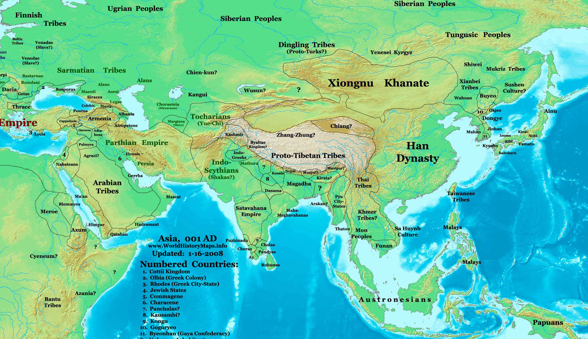 This image is a zoomed-in version of File:East-Hem_001ad.jpg Eastern Hemisphere in 001 AD. Author: Thomas A. Lessman. Source URL: Image was created by me (Thomas Lessman) based on map of Eastern Hemisphere in 001 AD. Image is free for public and/or educational use. I would appreciate a mention if this image is used elsewhere. If anyone is interested in helping further this work, please contact Thomas Lessman at . Other Historical Maps by Thomas Lessman Eastern Hemisphere in 500BC. Eastern Hemisphere in 323BC. Eastern Hemisphere in 200BC. Eastern Hemisphere in 100BC. Eastern Hemisphere in 50BC. Eastern Hemisphere in 1AD. Eastern Hemisphere in 50AD. Eastern Hemisphere in 100AD. Eastern Hemisphere in 200AD. Eastern Hemisphere in 300AD. Eastern Hemisphere in 400AD. Eastern Hemisphere in 475AD. Eastern Hemisphere in 476AD. Eastern Hemisphere in 477AD. Eastern Hemisphere in 500AD. Eastern Hemisphere in 565AD. Eastern Hemisphere in 600AD. Eastern Hemisphere in 700AD. Eastern Hemisphere in 800AD. Eastern Hemisphere in 900AD. Eastern Hemisphere in 1025AD. Eastern Hemisphere in 1100AD. Eastern Hemisphere in 1200AD.